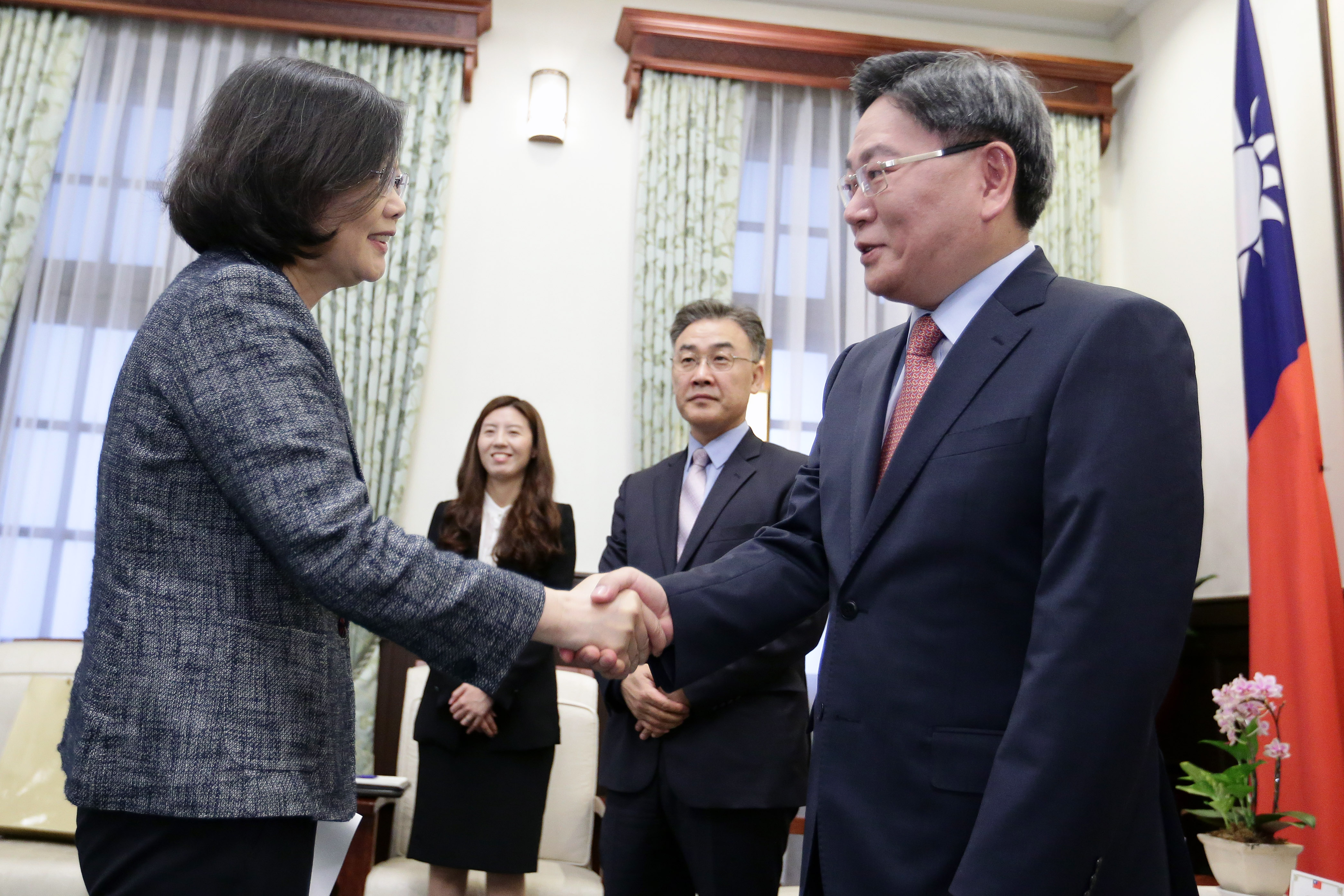 President [Tsai Ing-wen] shook hands with Yang Chang-soo, newly-appointed Representative of the Korean Mission in Taipei, during the meeting on 22 December.